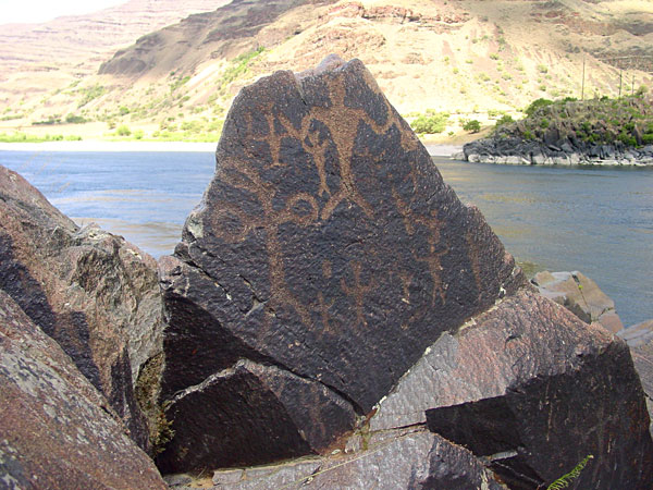 Buffalo Eddy site - 2 Petroglyphs Outside of Asotin, Washington Dense clusters of petroglyphs and pictographs in the sharp bends and eddies of the Snake River point to the longevity of the Nez Perce in this region. There are hundreds of images that date back 4,500 years. Nez Perce National Historical Park. NEPE III-4a